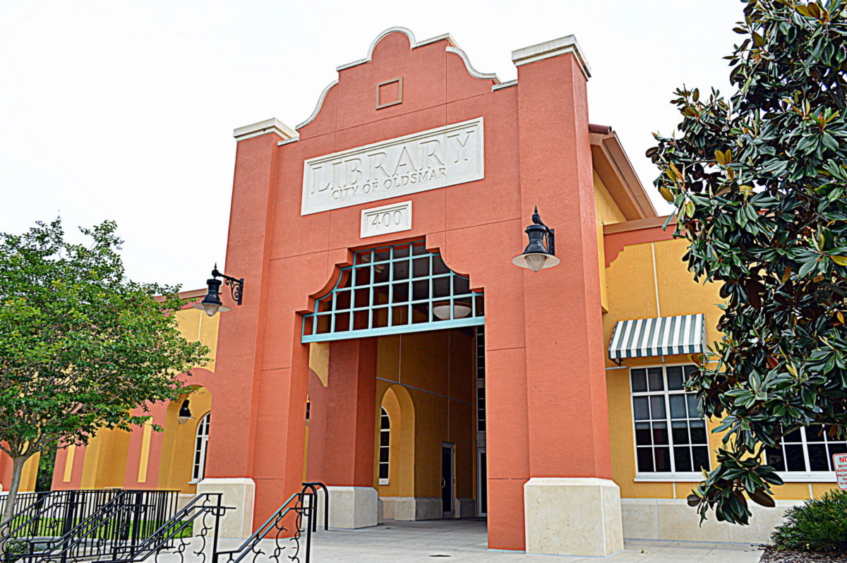 Frontage of Oldsmar Public Library.